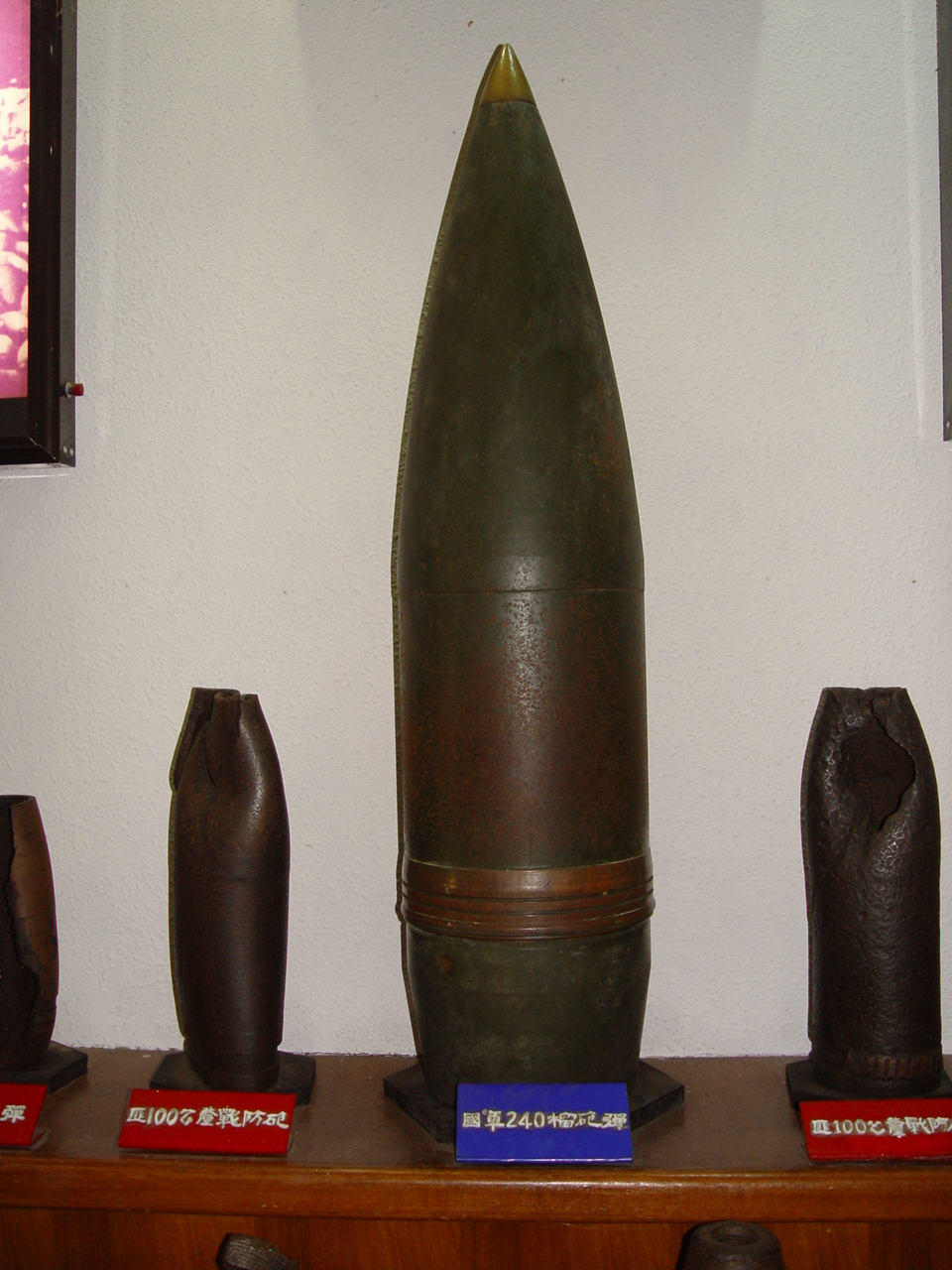 中華民國最大砲彈國軍240榴砲彈，現置放於湖井頭。砲彈兩側是當時中國人民解放軍的砲彈，被中華民國形容為匪砲，意指共匪的砲彈。 阿仁(seasurfer)拍攝 時間：2005年7月7日 Republic of China largest bomb during the war with the communist, taken by seasurfer on 7.7.2005 in Kinmen.